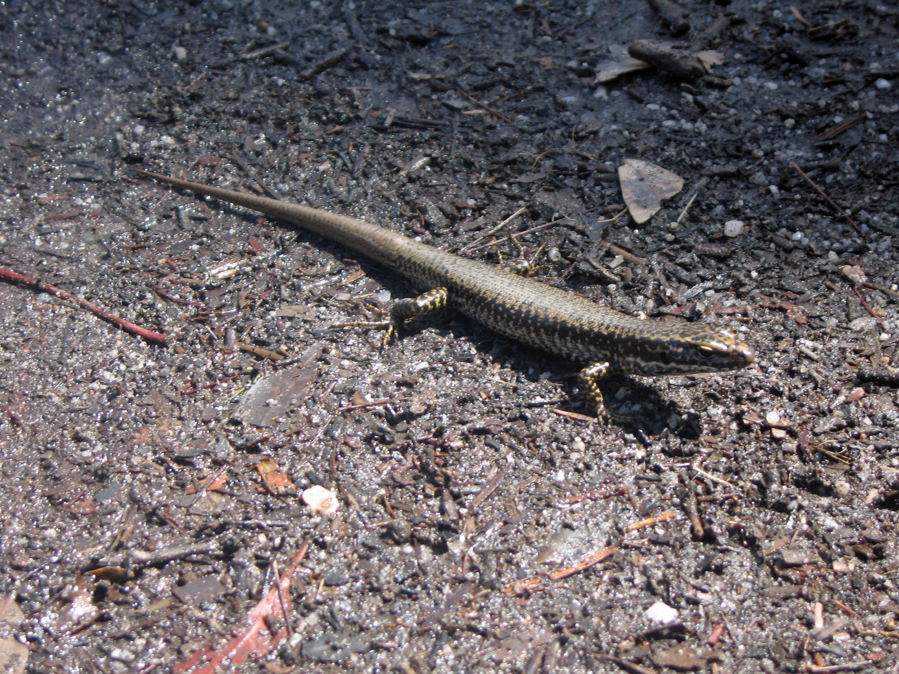 Eulamprus heatwolei (originally misidentified as E. leuraensis)